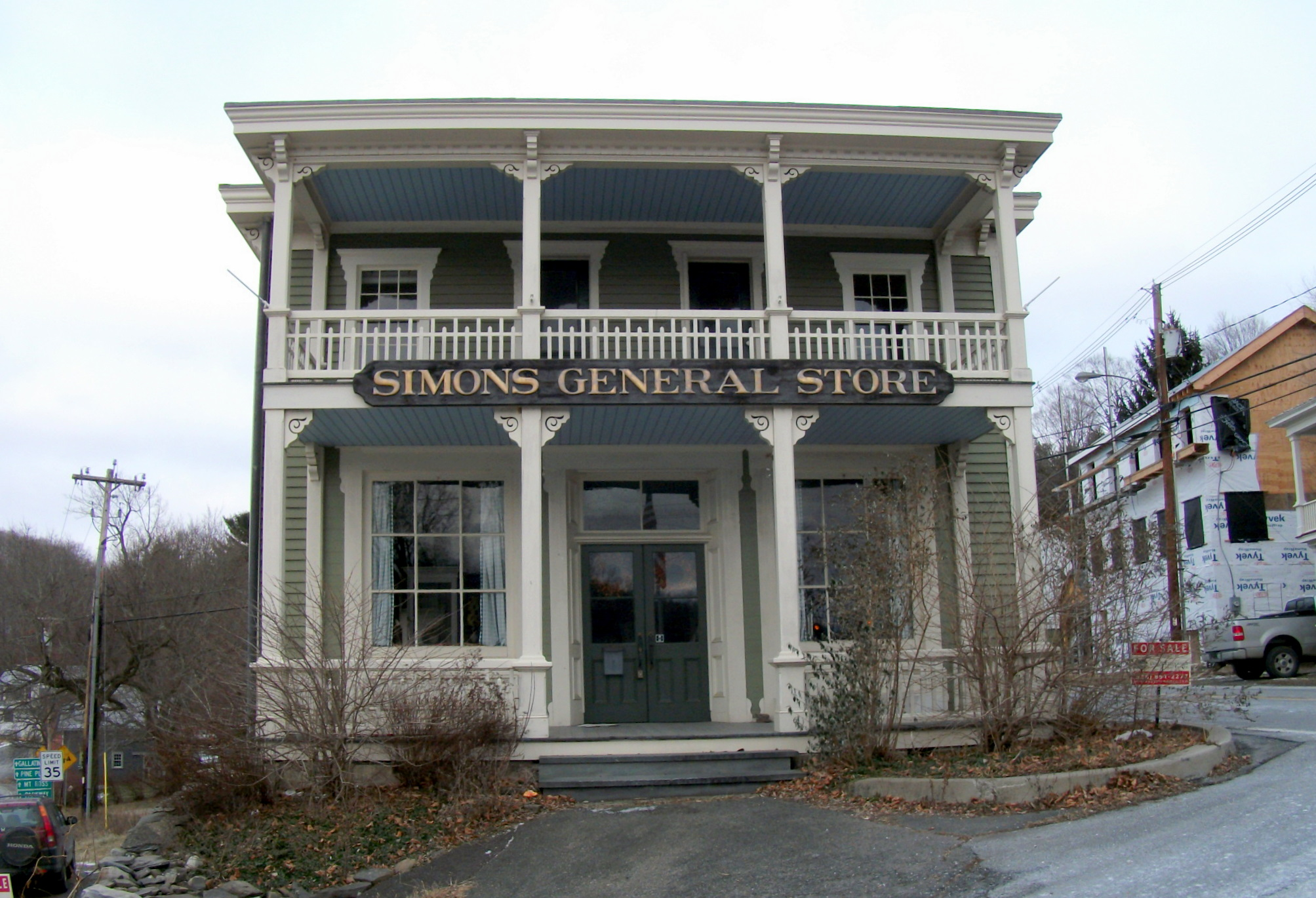 Ancram, New York Cropped from original Camera: Fujifilm FinePix AX200 License on Flickr (2010-12-30): CC-BY-SA-2.0 Flickr tags: Ancram, New York, house, memorial, monument, upstate, Hudson Valley